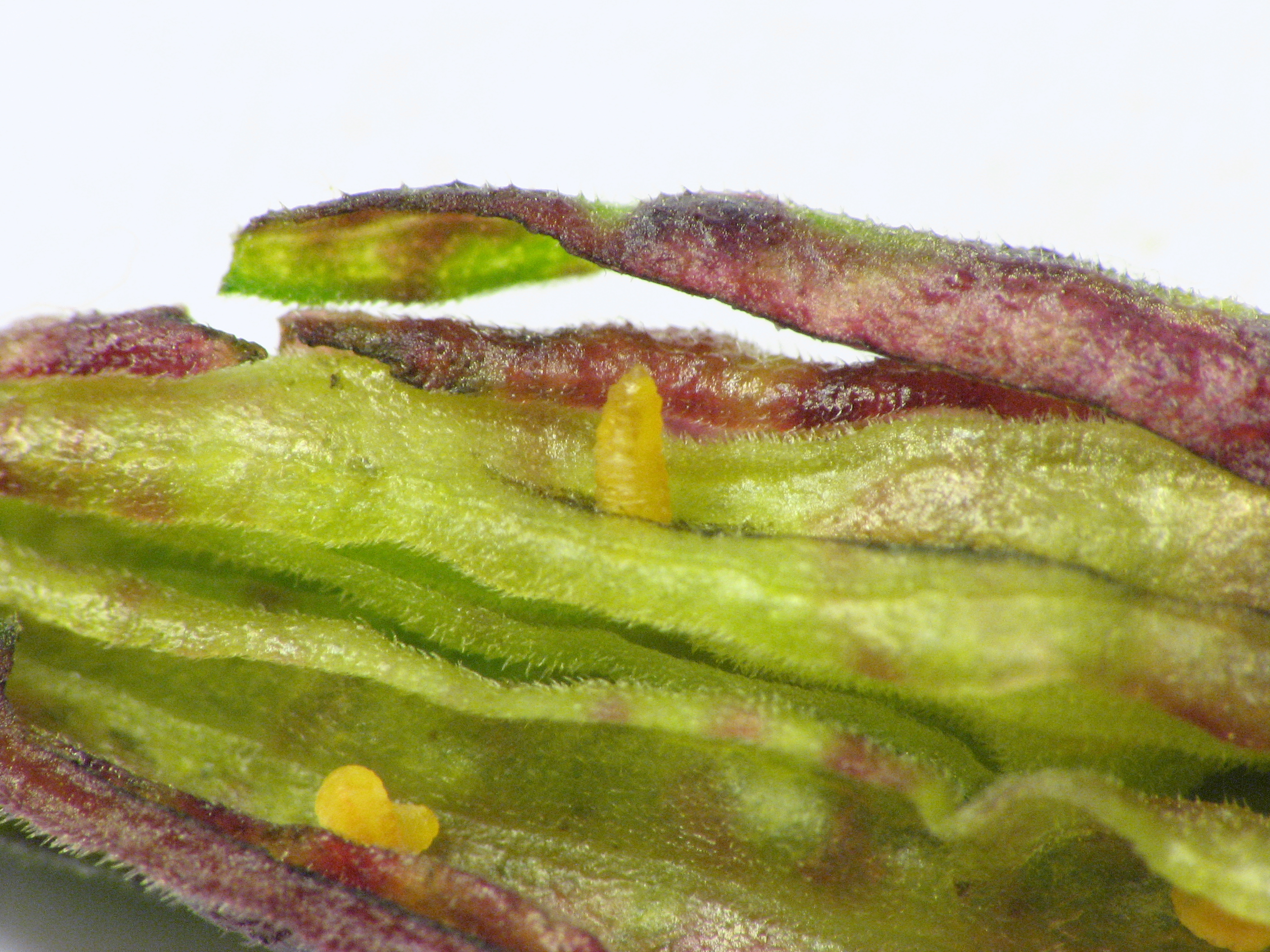 Close up of gall made by Dasineura carbonaria by joining several leaves of Euthamia graminifolia.